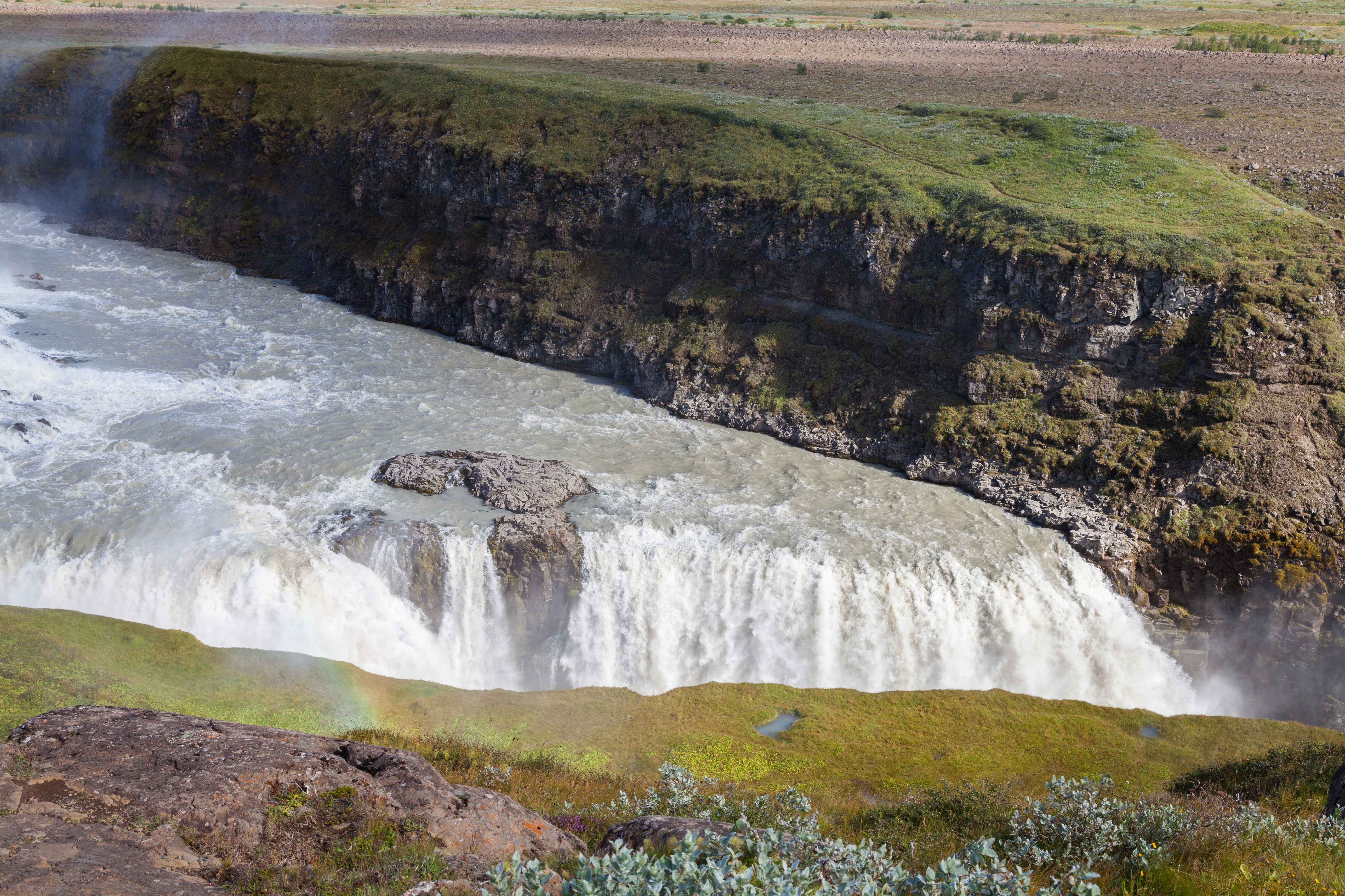 Gullfoss, Suðurland, Iceland